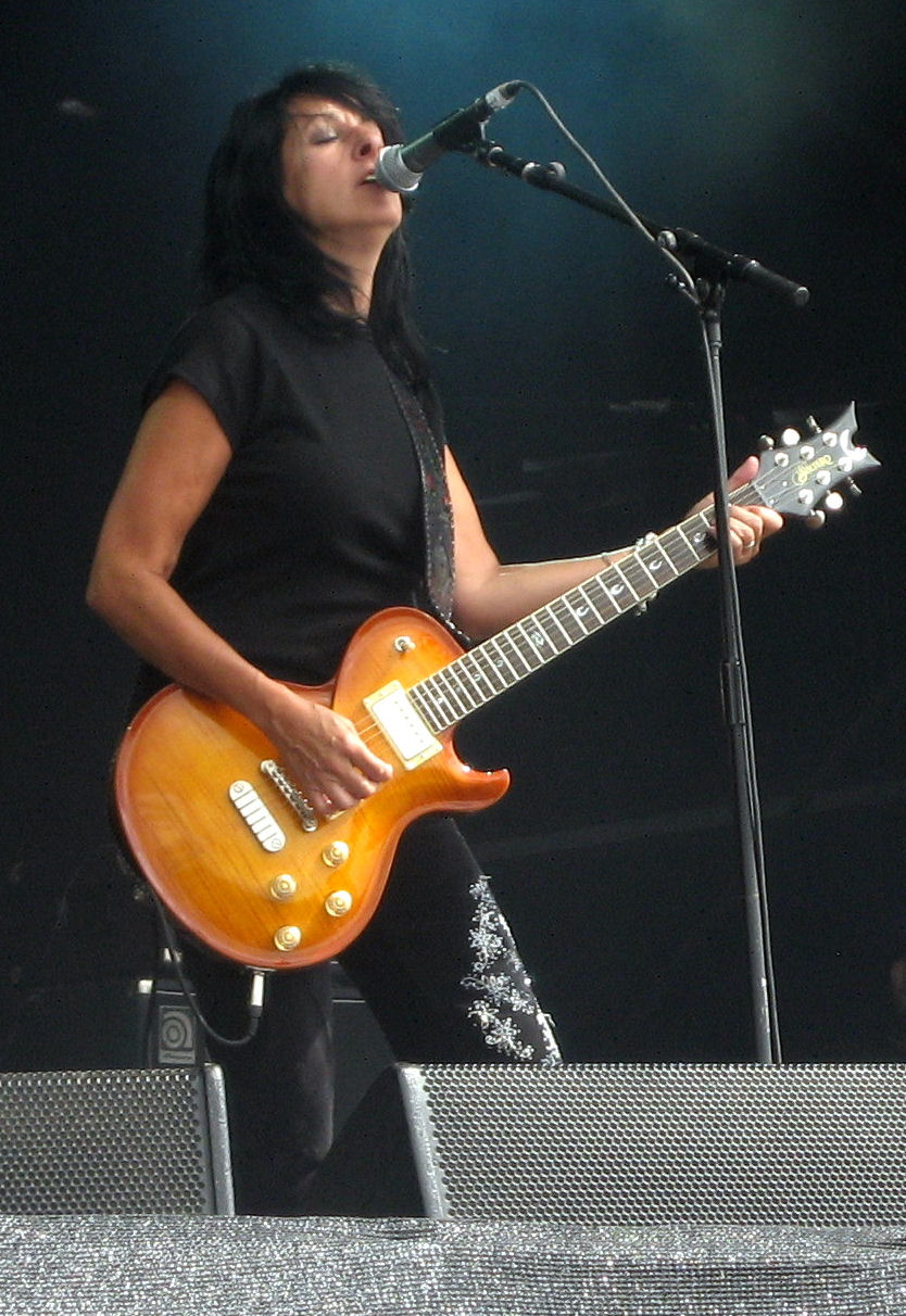 Kim McAuliffe and Enid Williams of the heavy metal band Girlschool at Bloodstock Open Air 2009